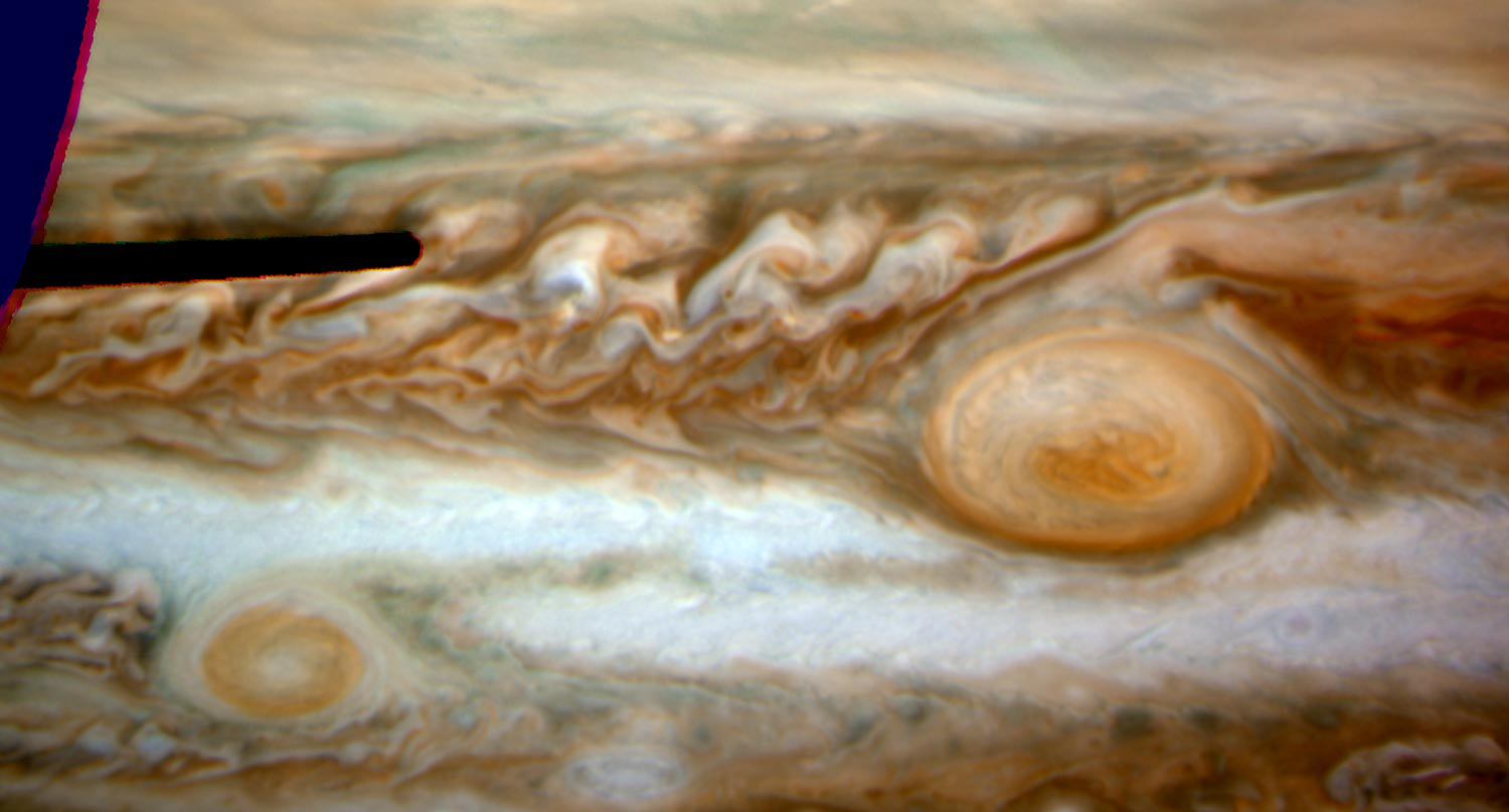 Deprojected map image of the Red Spot region of Jupiter from ACS/HRC at 00:41 UTC on April 25, 2006. Each pixel spans 0°.05 in latitude and longitude, with the top of the image lying just along the equator. Three filters are shown here in red (F658N), green (F502N), and blue (F435W).